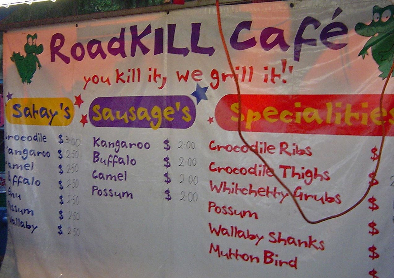 Roadkill Cafe in Cullen Bay, Darwin (Northern Territory) Australia August 10, 2004. Restaurant's motto is: "you kill it we grill it."